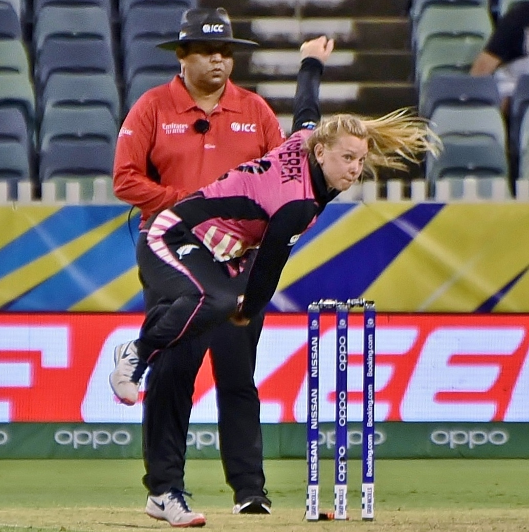 Leigh Kasperek bowling for New Zealand against Sri Lanka during their 2020 ICC Women's T20 World Cup match at the WACA Ground in Perth, Australia